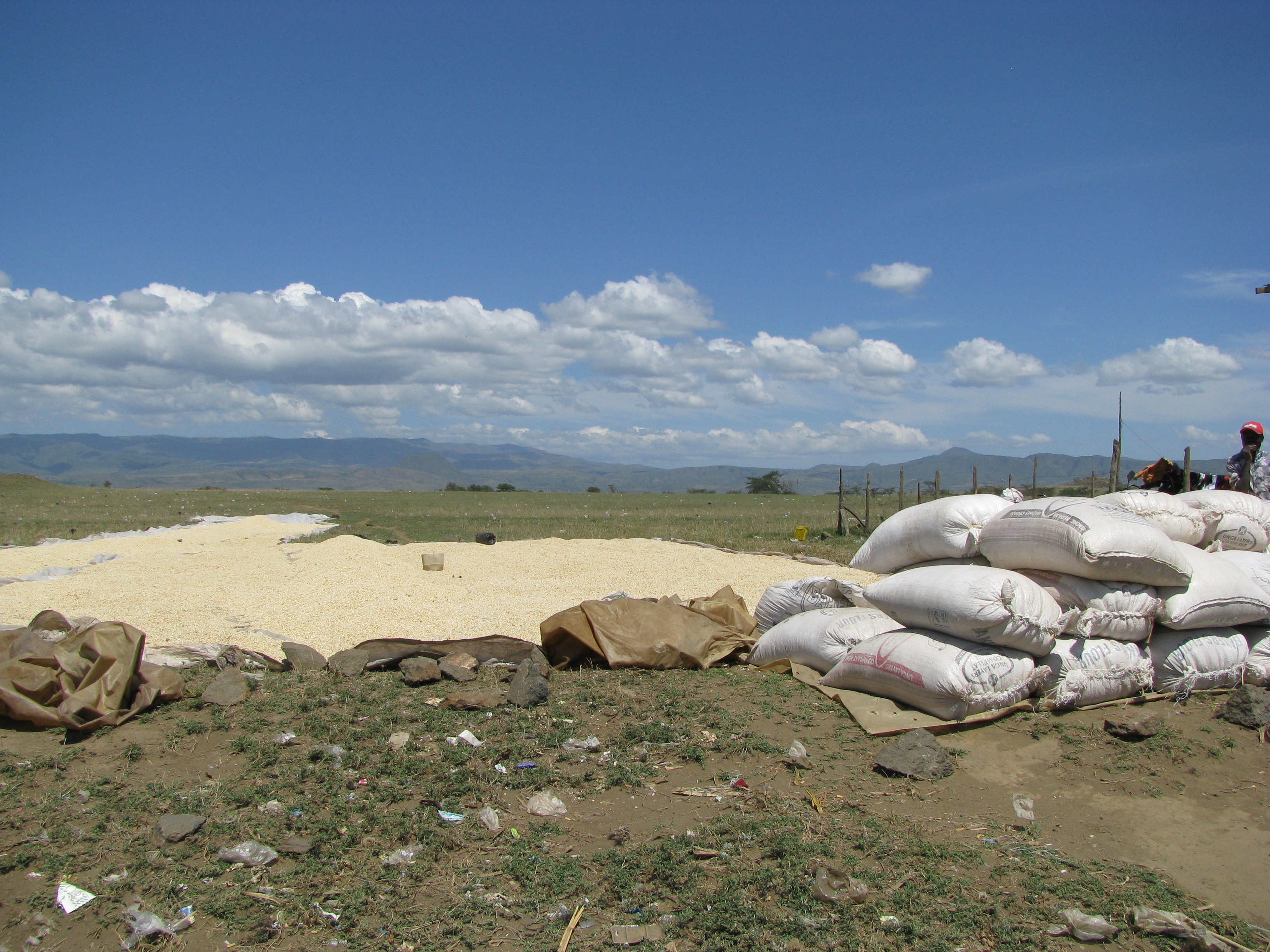 Maize is big business in Kenya. Here is maize laid out to dry. You can also see sacks of packed maize in the foreground. (Oct/ Nov 2010)